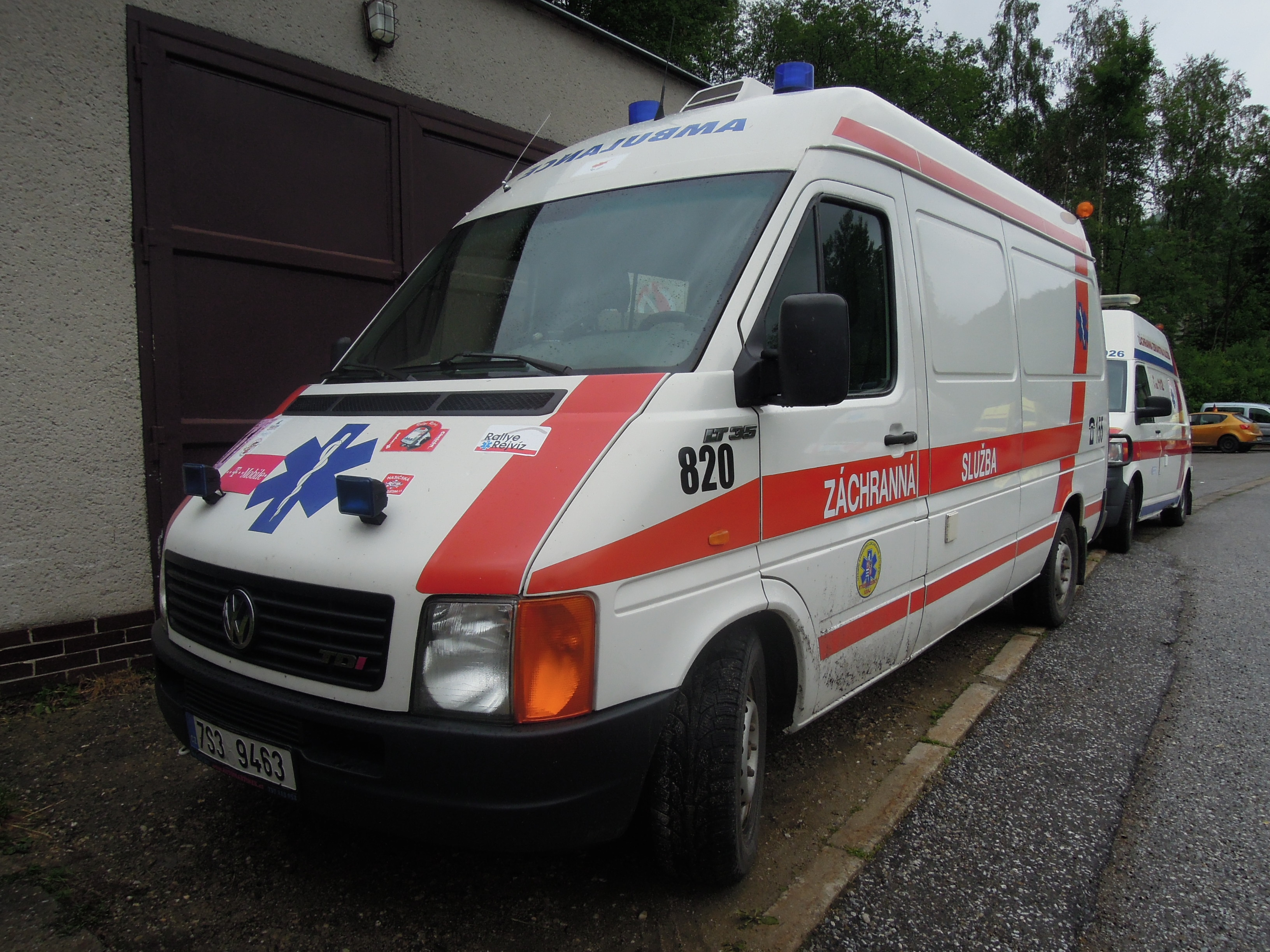 Volkswagen LT ambulance of Územní středisko záchranné služby Středočeského kraje. Photo was taken during the international competition Rallye Rejvíz 2012 in Kouty nad Desnou, Olomouc Region, Czech Republic